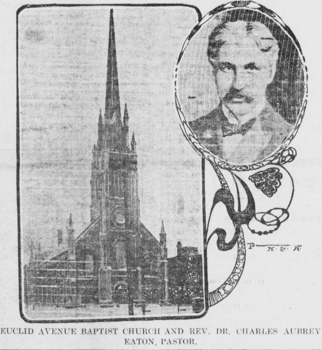 in 1904, the Rev. Dr. Charles Aubrey Eaton was the pastor of the Euclid Avenue Baptist Church in Cleveland -- a church whose membership included John D. Rockefeller.